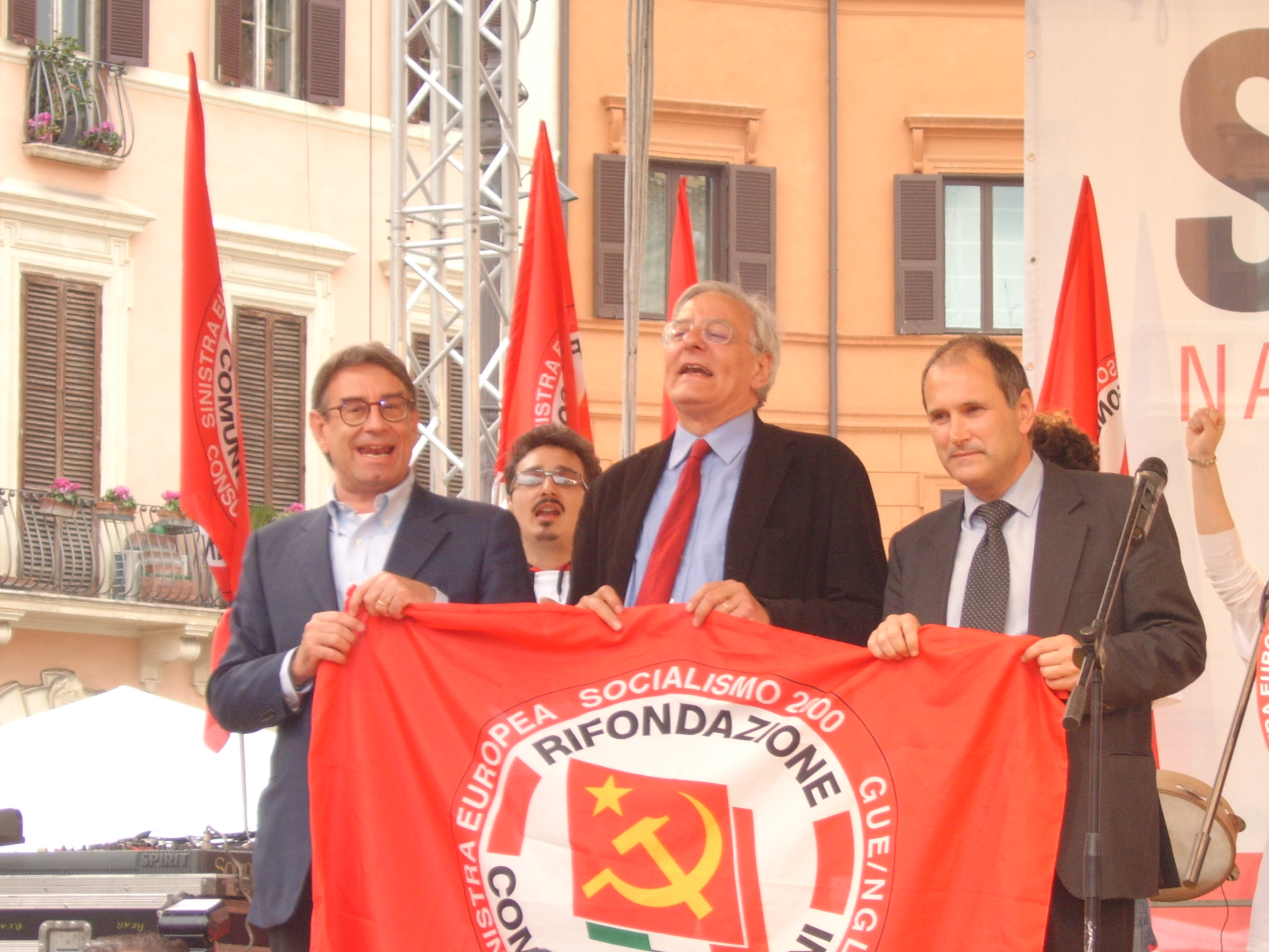 Oliviero Diliberto, Cesare Salvi and Paolo Ferrero in Rome (April 18, 2009)